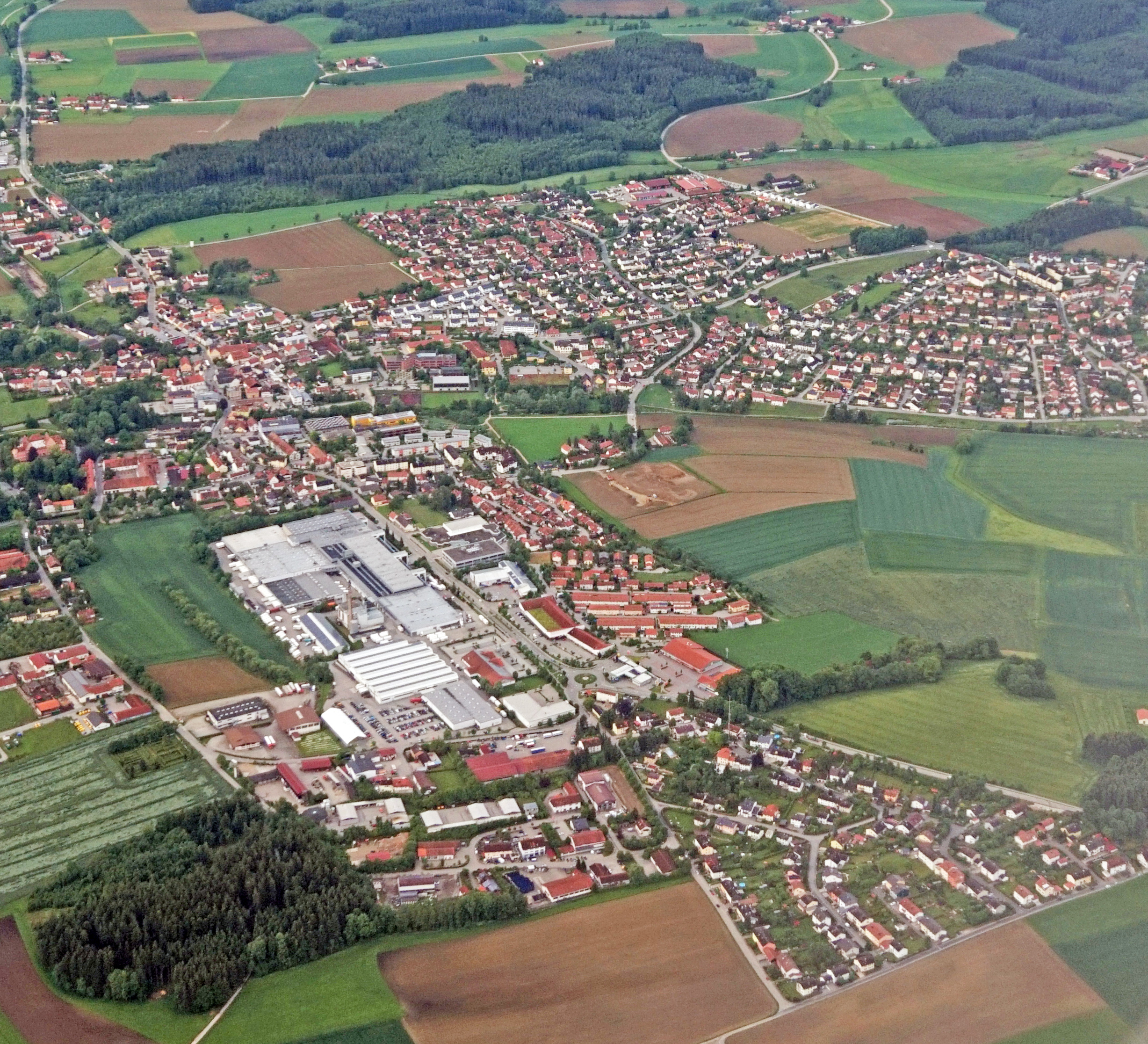 Taufkirchen (Vils) in Bavaria, Germany. The large industrial plant is the Himolla furniture factory. This photograph was taken with a Sony Alpha a5000.